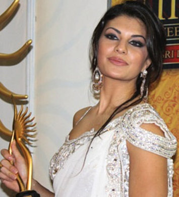 Jacqueline Fernandez at IIFA 2010